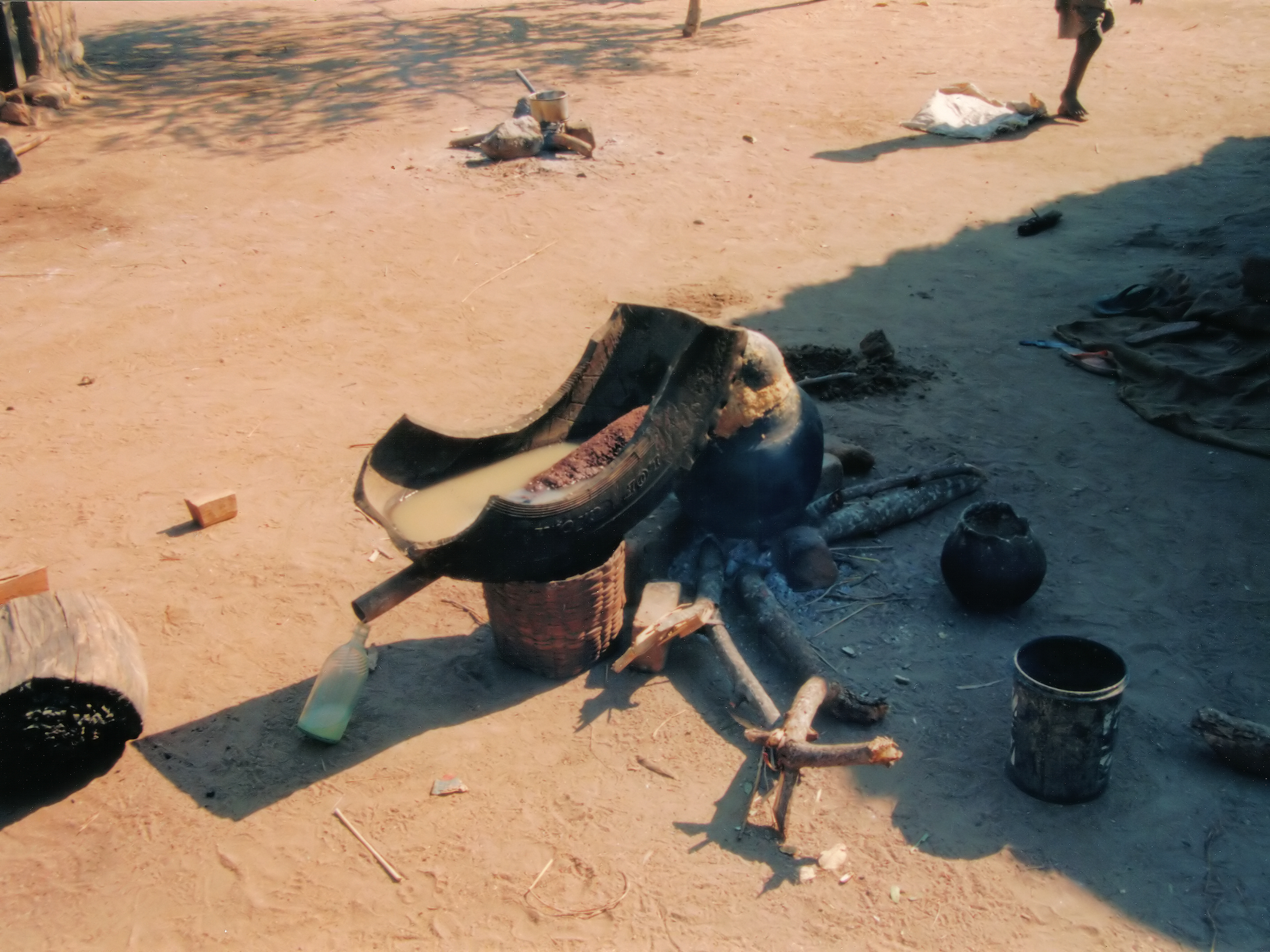 Distilling Kachasu with a home made still and cooler[1]. Somewhere in a village along Great East Road between Nyimba and Petauke, Zambia. Scanned from photograph ↑ Zambians eager for legal home-made beer